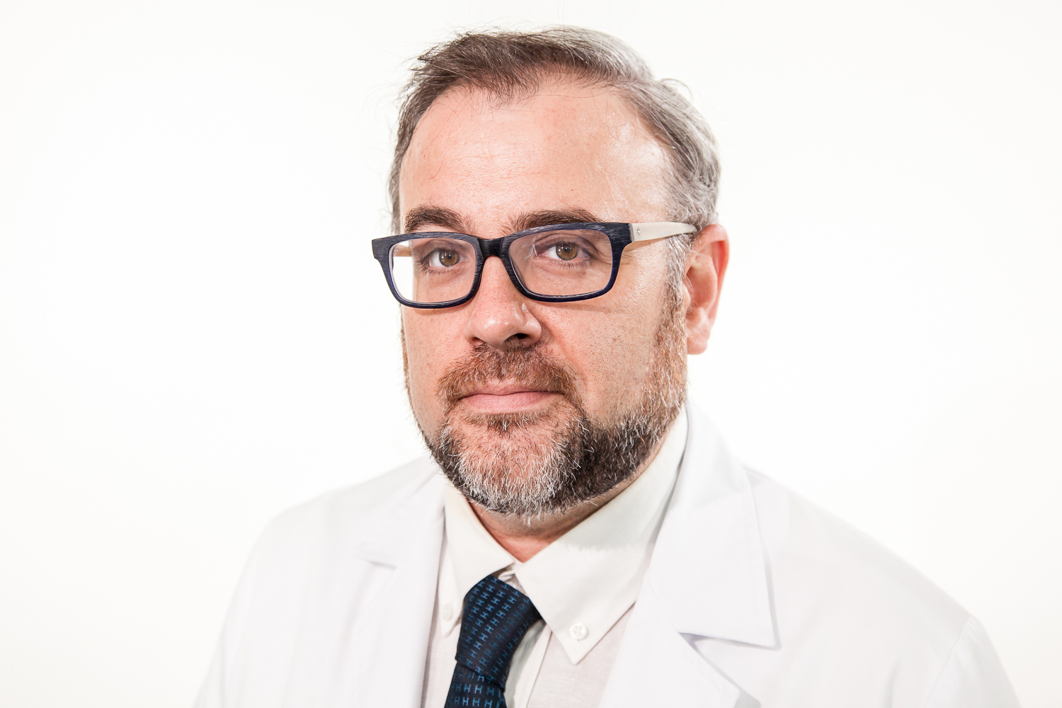 Portrait of Doctor Alfageme